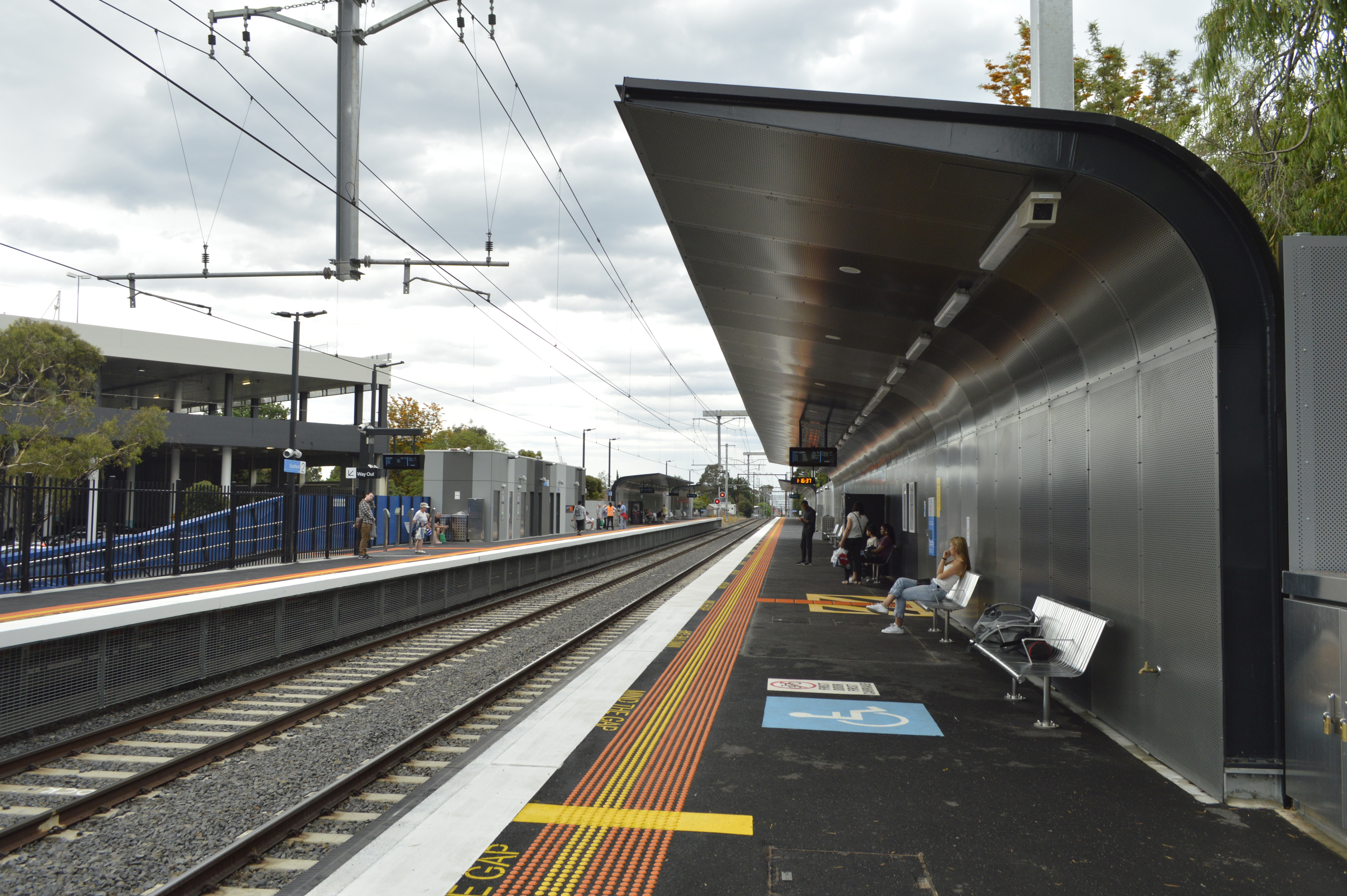 Looking south in November 2017, taken on the first day of opening.